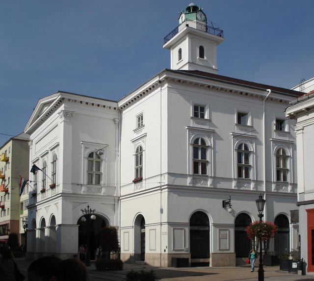 National Theatre of Miskolc